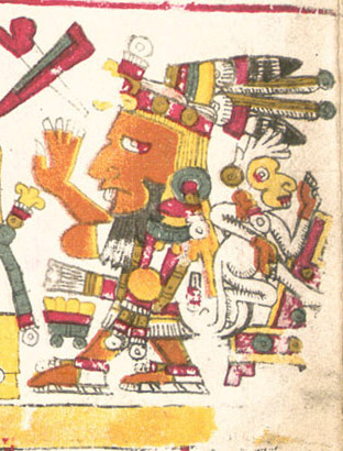 A drawing of Tonacacihuatl, one of the deities described in the Codex Borgia